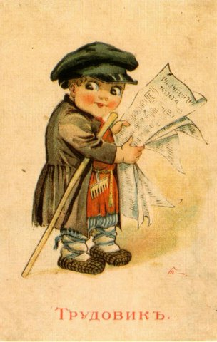 Postcard by Vladimir Taburin